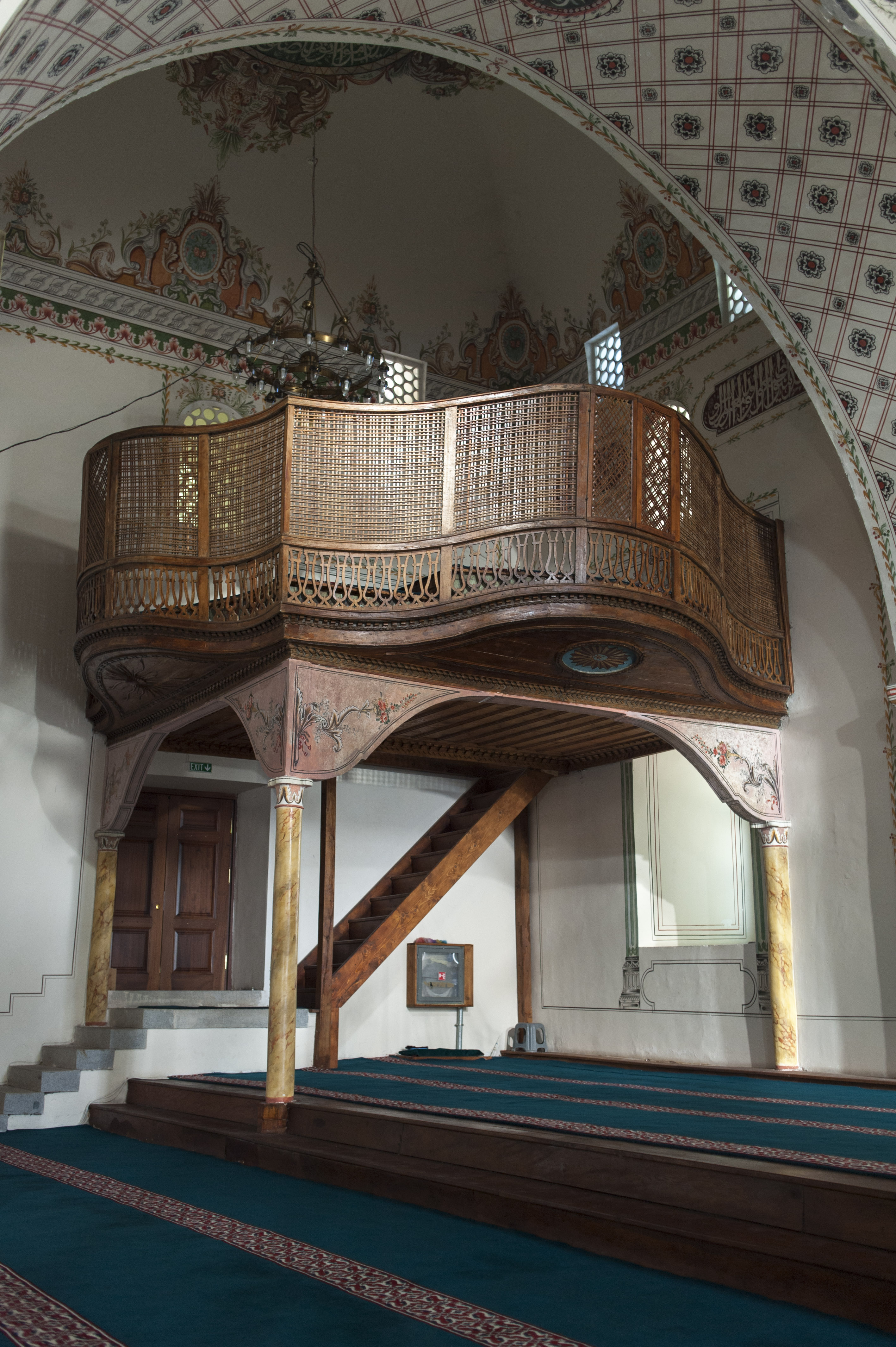 Djumaya (Cuma) Mosque, Plovdiv, Bulgaria.